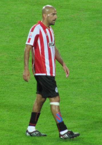 Juan Sebastian Veron during 2009 FIFA Club World Cup.